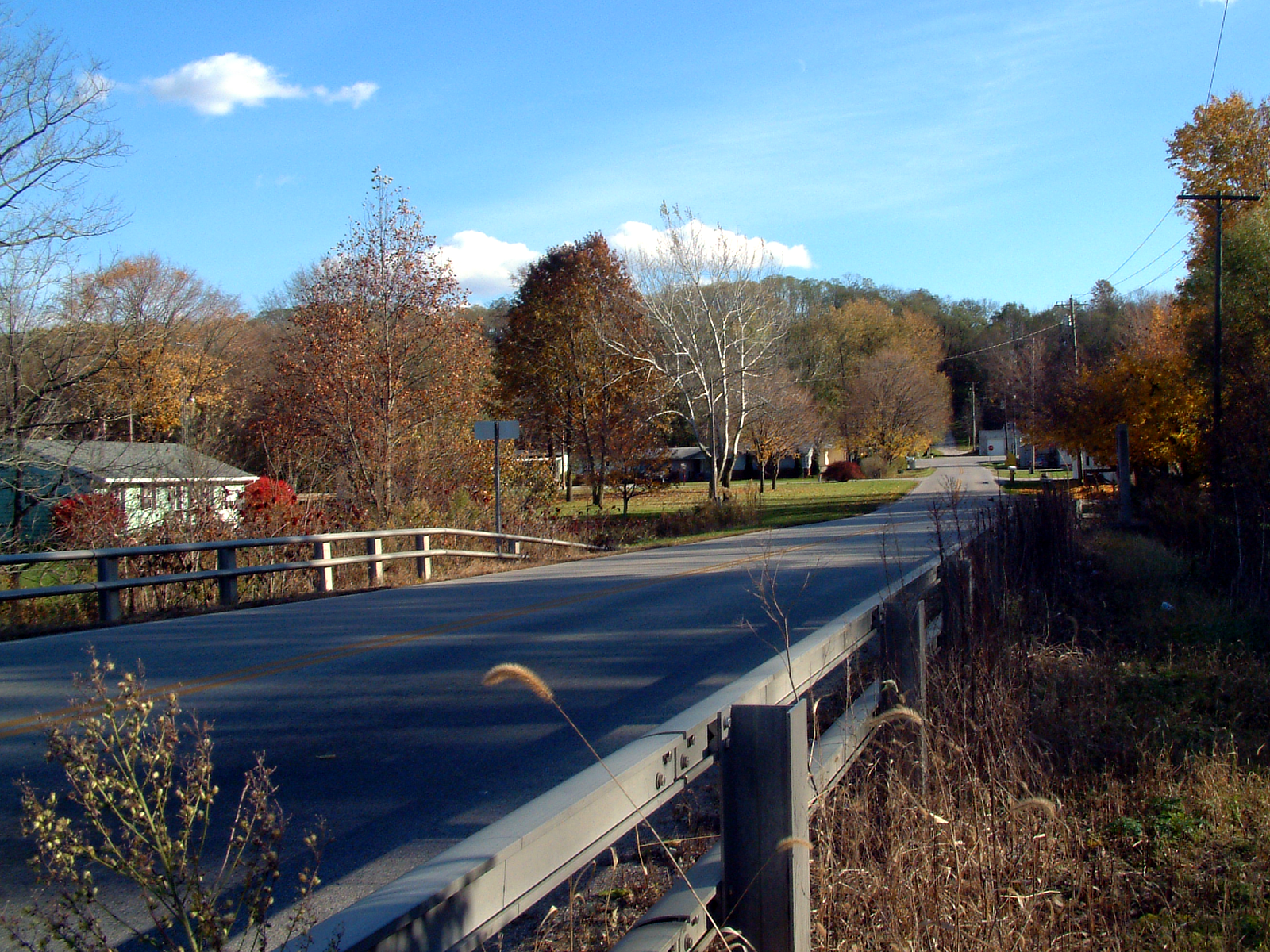 The view southeast toward the small town of Americus, Indiana. This photo was taken from near the Wabash River bridge on Grant Road and looks toward the intersection with Indiana State Road 25.